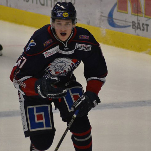 Henrik Törnqvist of Linköpings HC in a SHL game.